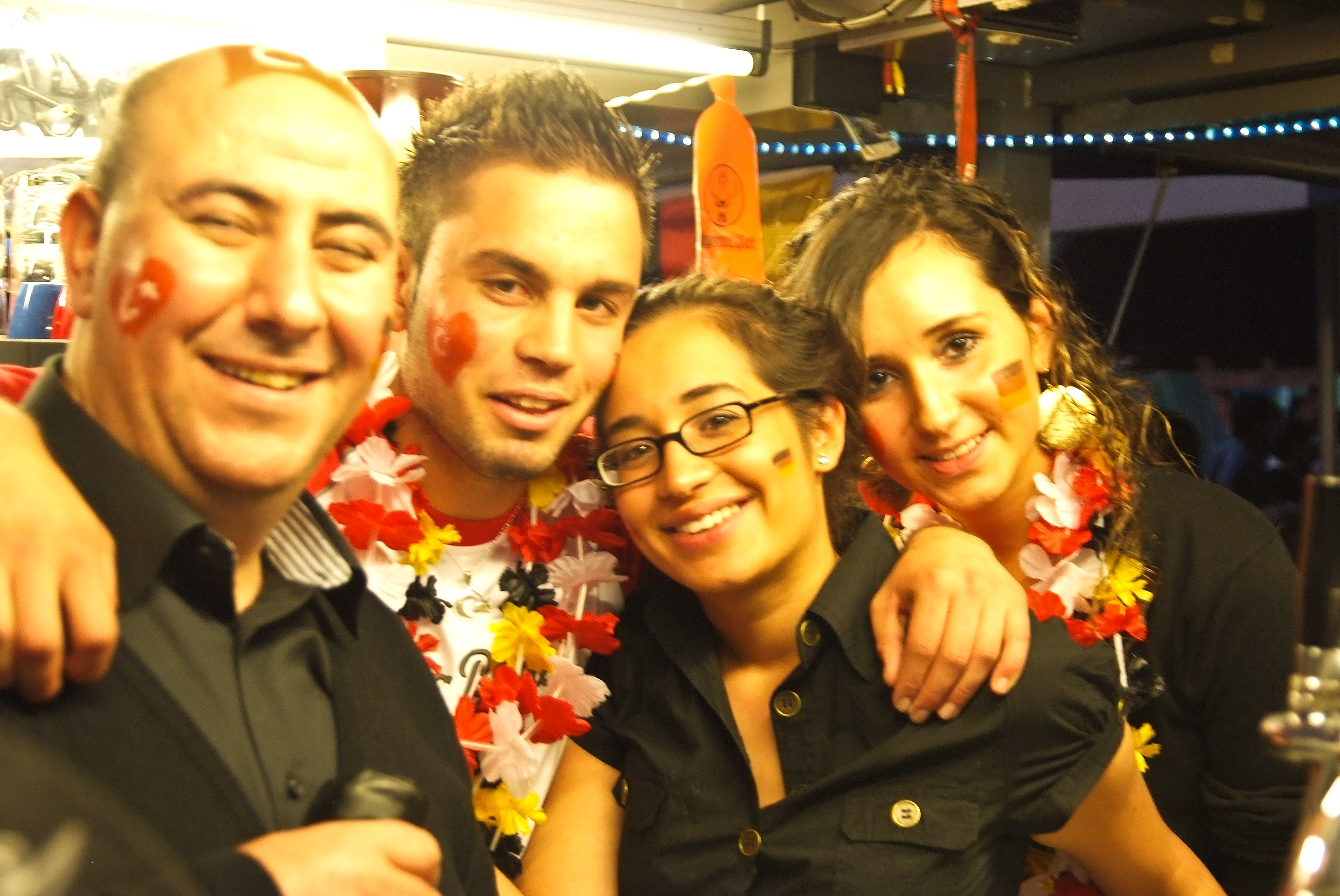 Turkish-Germans at the Euro 2008 match between Germany and Turkey.